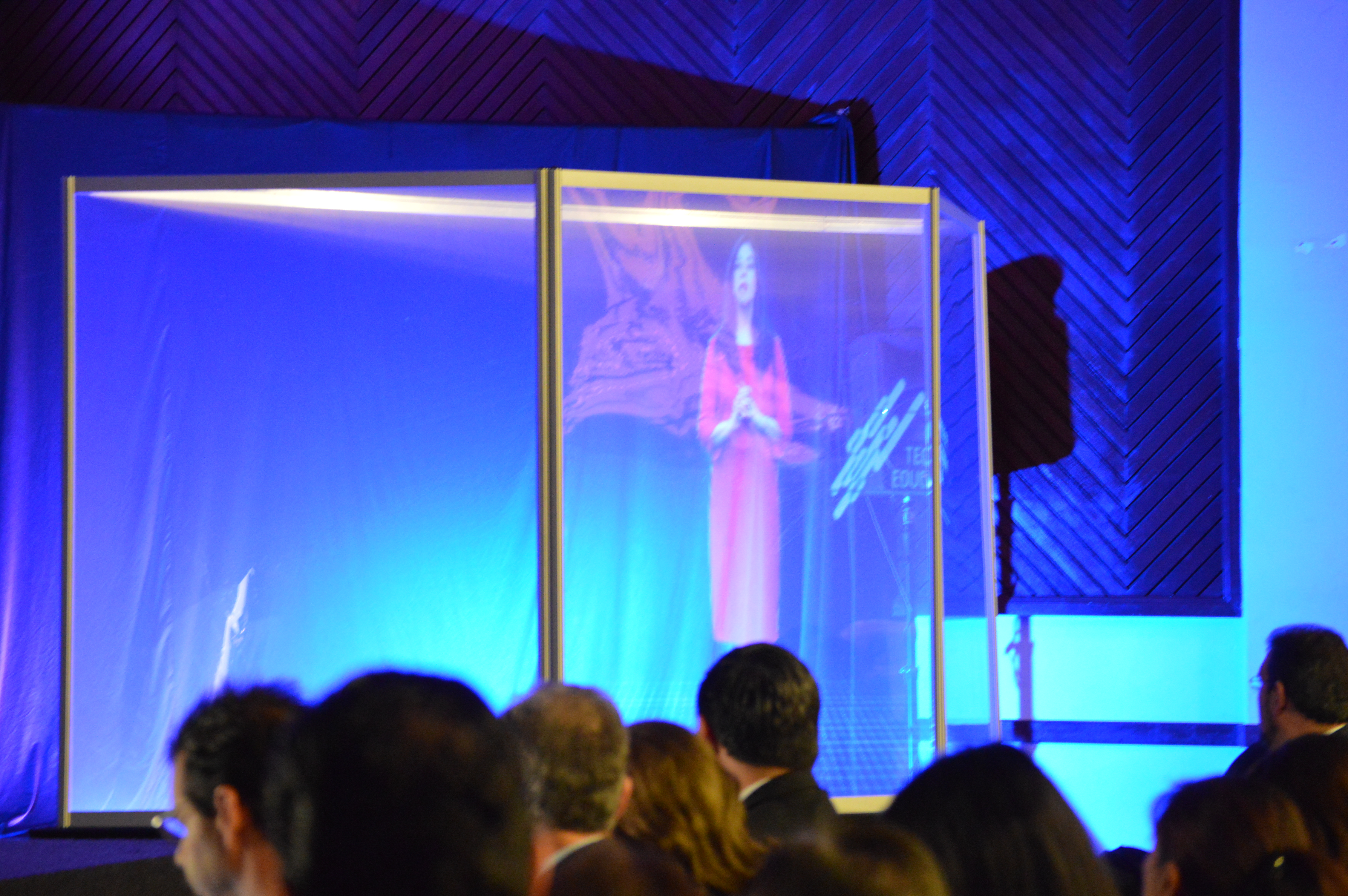 Hologram of Dr. Patricia Salinas introducing speakers at the opening of the 8o Congreso de Innovación y Tecnología Educativa at ITESM Campus Monterrey